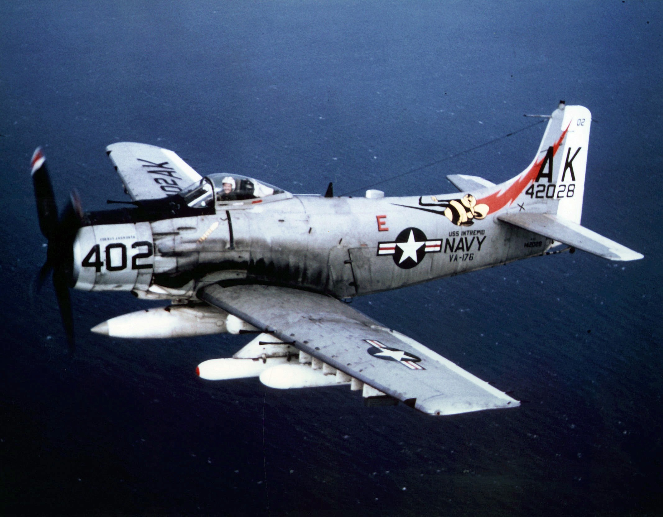 A U.S. Navy Douglas A-1J Skyraider (BuNo 142028) of Attack Squadron 176 (VA-176) "Thunderbolts" in flight. VA-176 was assigned to Attack Carrier Air Wing 10 (CVW-10) aboard the aircraft carrier USS Intrepid (CVS-11) for a deployment to Vietnam from 4 April to 21 November 1966.